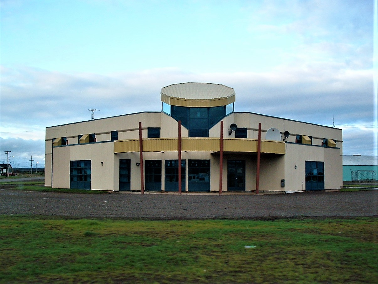 Schefferville/Matimekosh Montagnais centre